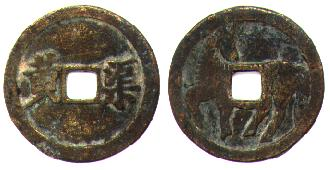 Section 20.9: Two character obverse, horse reverse 22 mm and 29 mm Obv.: Right: Ch'u Left: Huang Rev.: Horse Meaning: Ch'u Huang - "The great yellow horse" Ref.: S [XXV no.120]